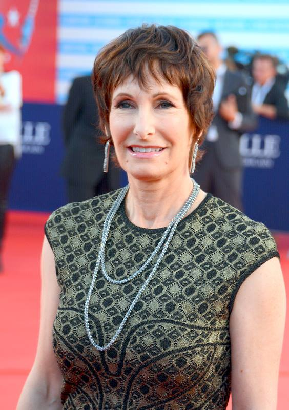 Gale Ann Hurd at the Deauville American Film Festival